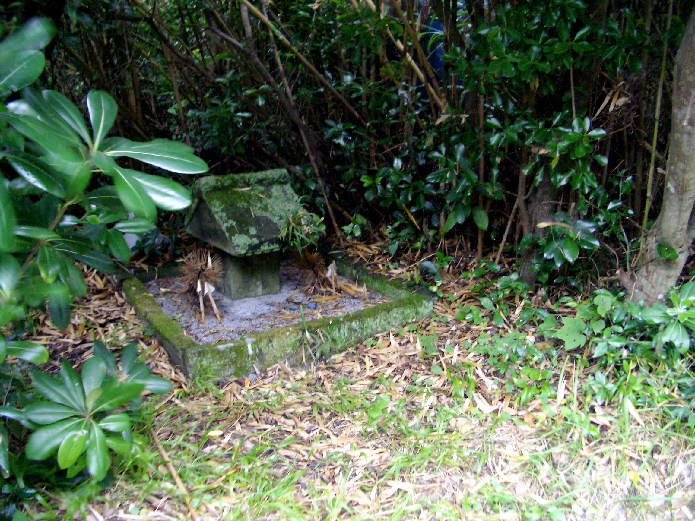 A small, roadside Shinto shrine on Nijima, a small Japanese island in the Pacific ocean. This small stone building is said to be a sacred place of the Shinto kami.